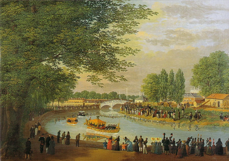 View of the Puente de Barcas bridge and the Royal Falúa